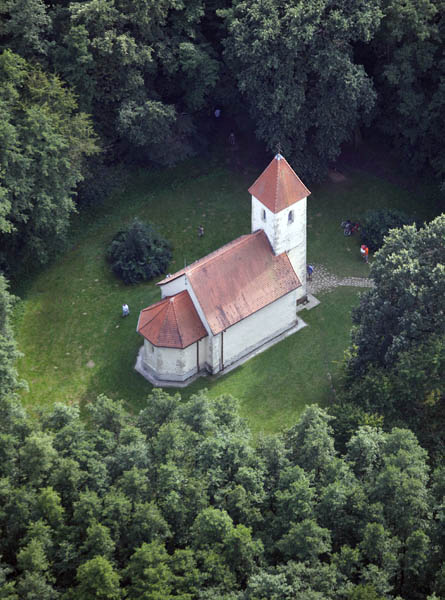 Velemér, VAs county, Hungary, aerial photography